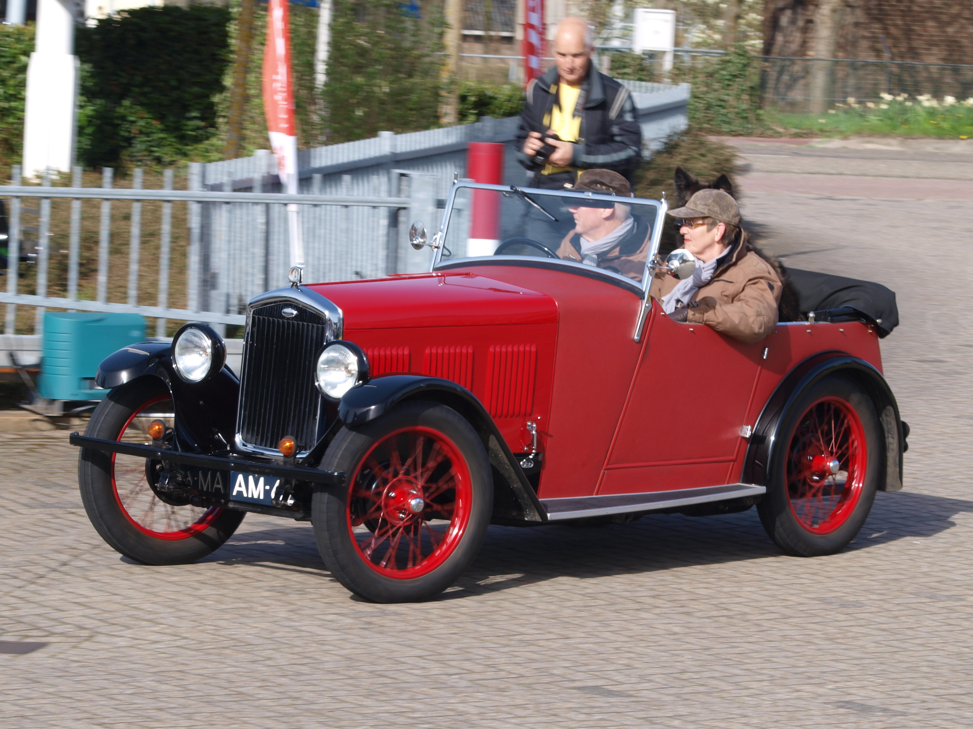 Red Wolseley Hornet, Dutch registration AM-62-91 Wolseley Hornet cabriolet 6-cylinders 1271 cc 25bhp 4-seater